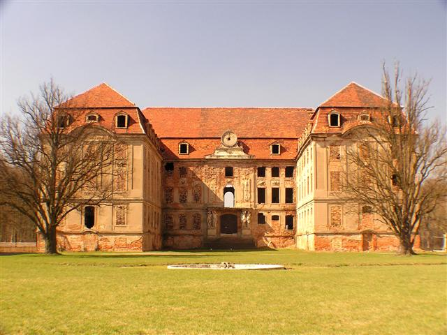 The palace of Brody, Żary County